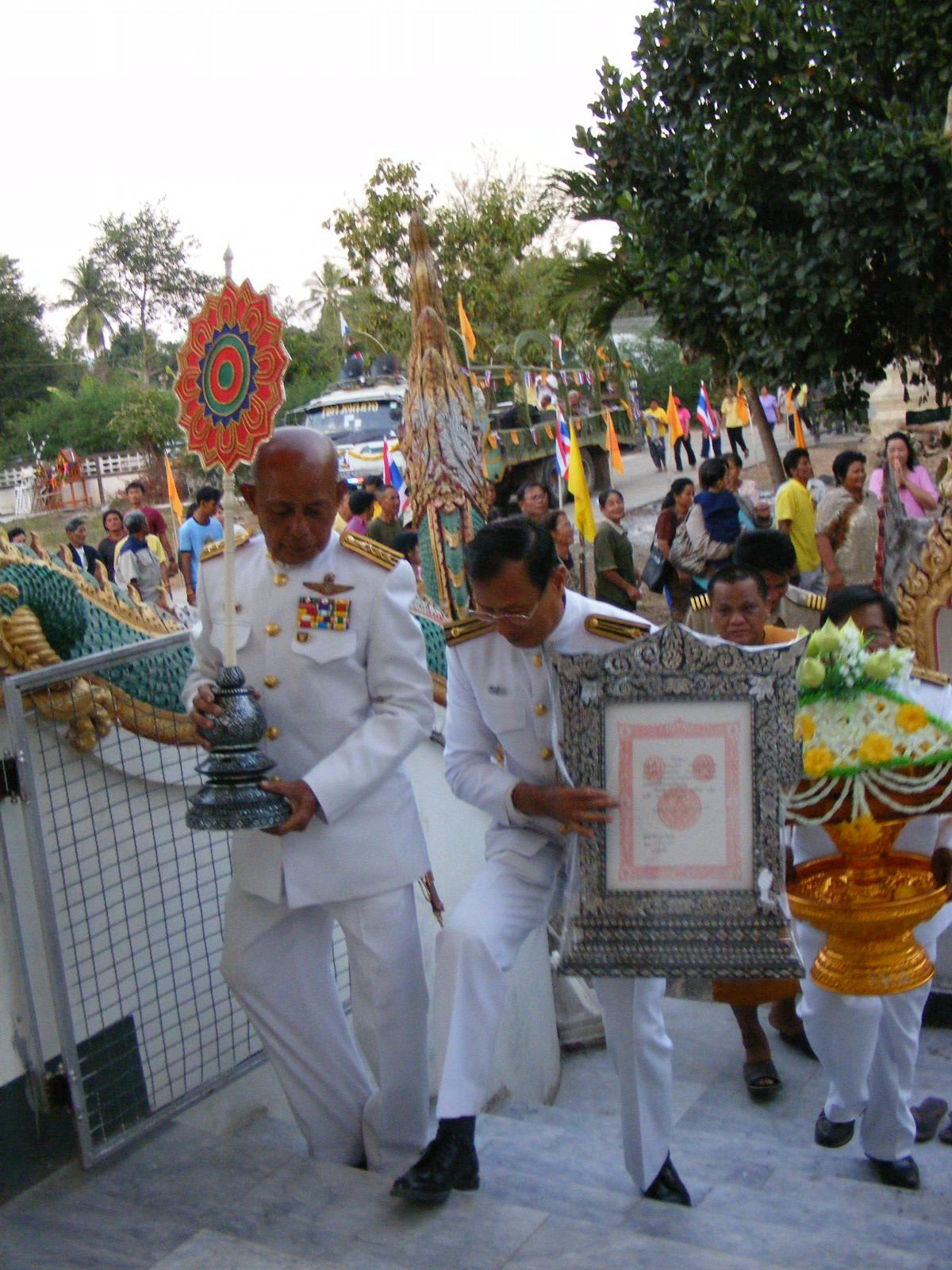 celebrate priest of Wat Khung Taphao abbot temple rank in Ban Khung Taphao, Khung Taphao subdistrict, Mueang Uttaradit, Uttaradit Province, Thailand. on January 17, 2008.